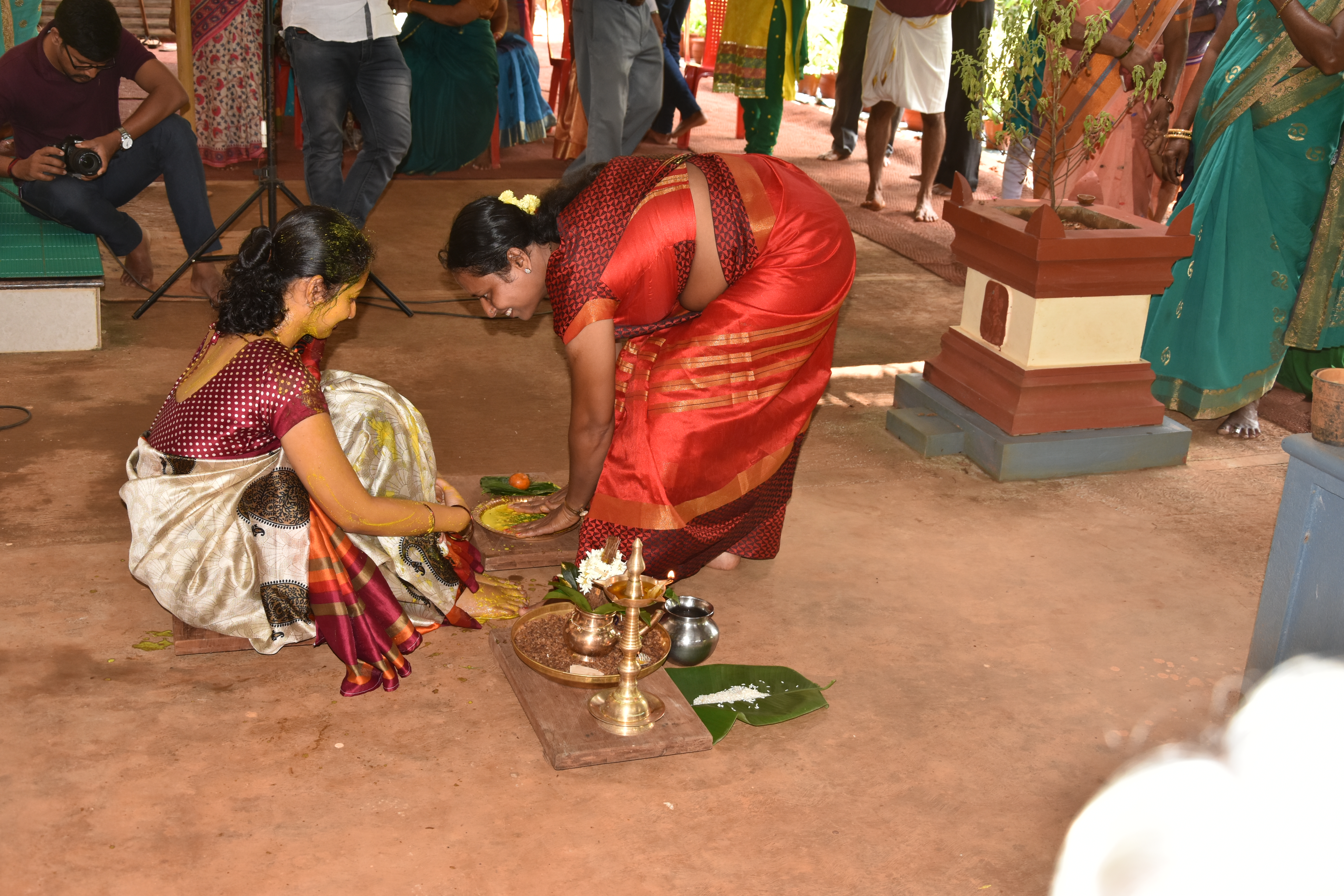 Madurangi shastra is a important ritual associated with T ulunad Marriages. On day before marriage both bride and groom are decorated with turmeric paste by a odd numbers of elderly married women of their families This photo has been taken in the country: India